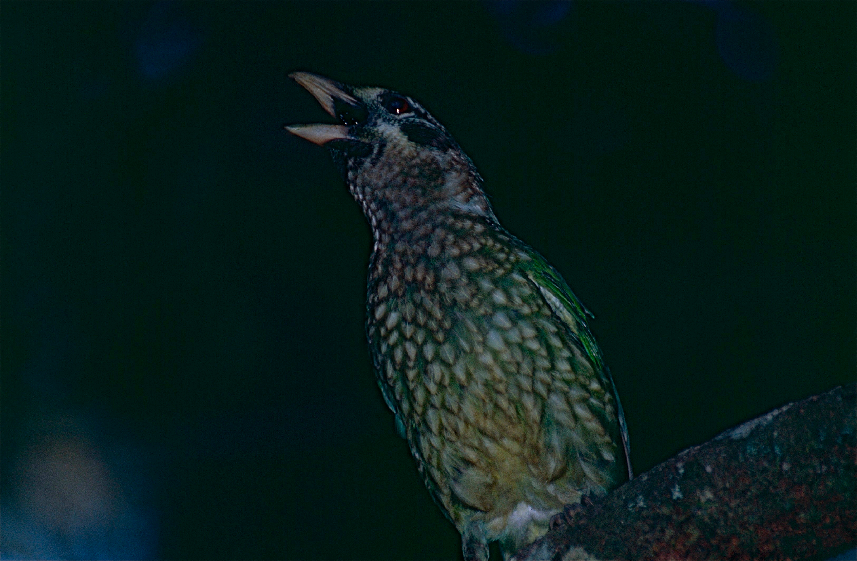 Chambers Wildlife Rainforest Lodges, Lake Eacham, North Queensland, AUSTRALIA Scanned Slide from Nov 2000